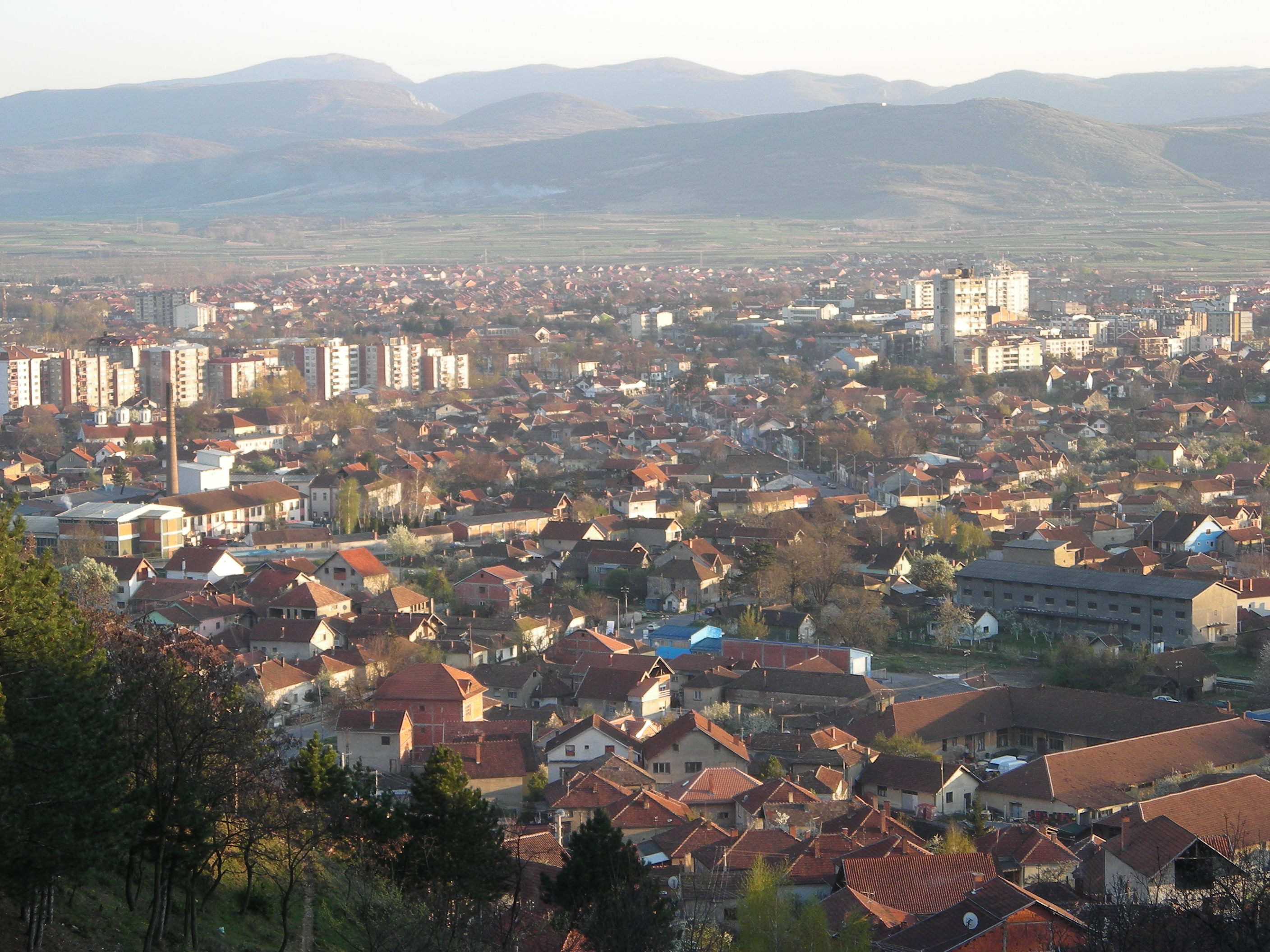 Panoramic view of Pirot, Serbia